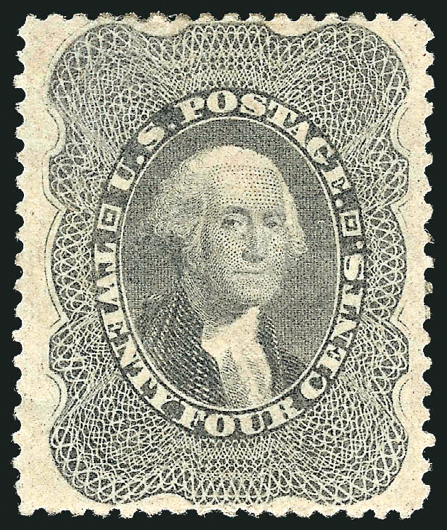 24 cent Washington stamp from 1860